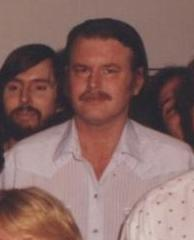 John Swartzwelder in 1992. Cropped from Image:Simpsons writers2.jpg